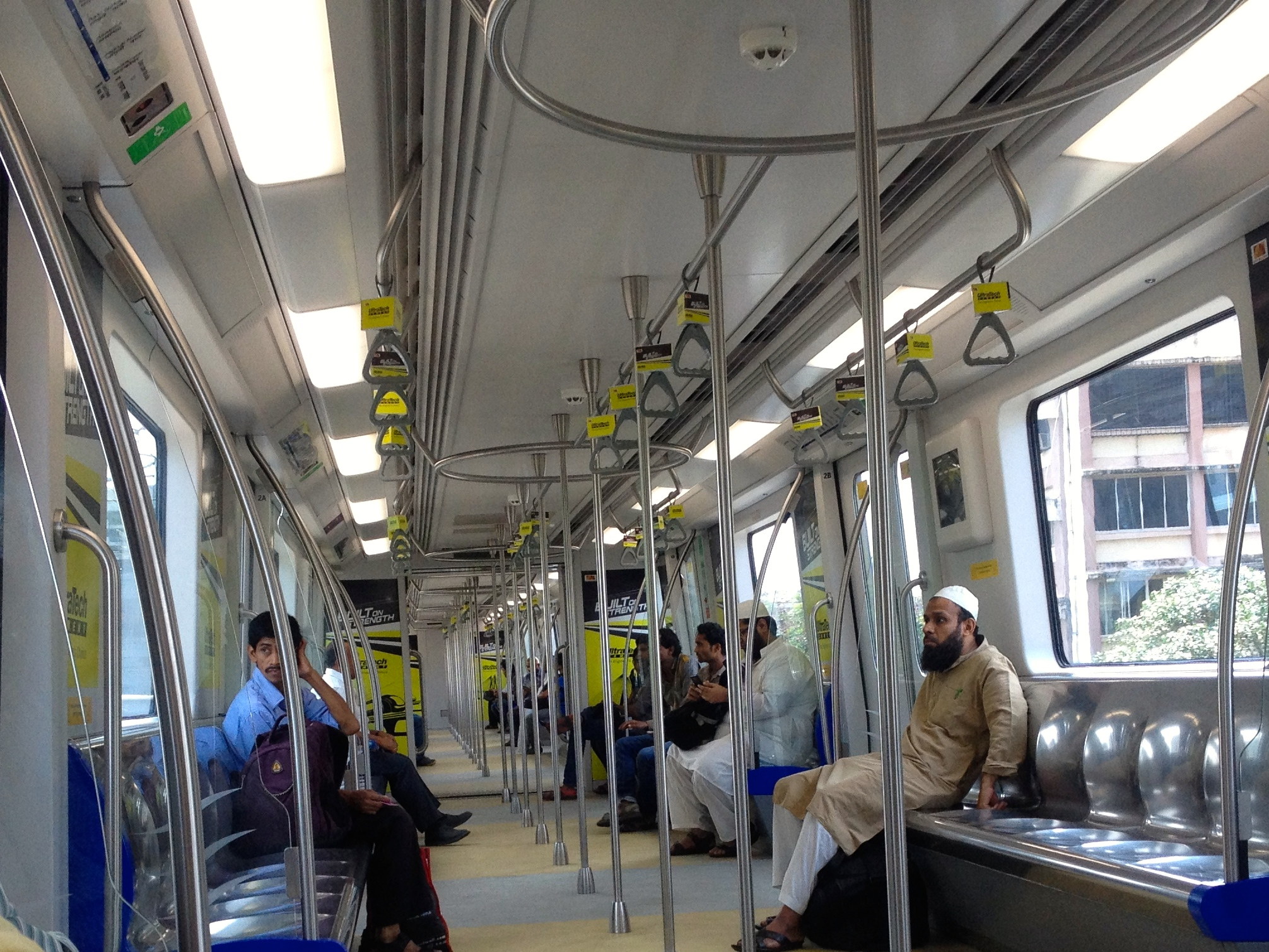 The interiors of a Mumbai Metro rake